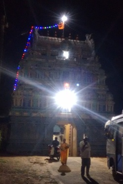 Ambar brahmapurisvarar temple அம்பல் பிரம்மபுரீஸ்வரர் கோயில்